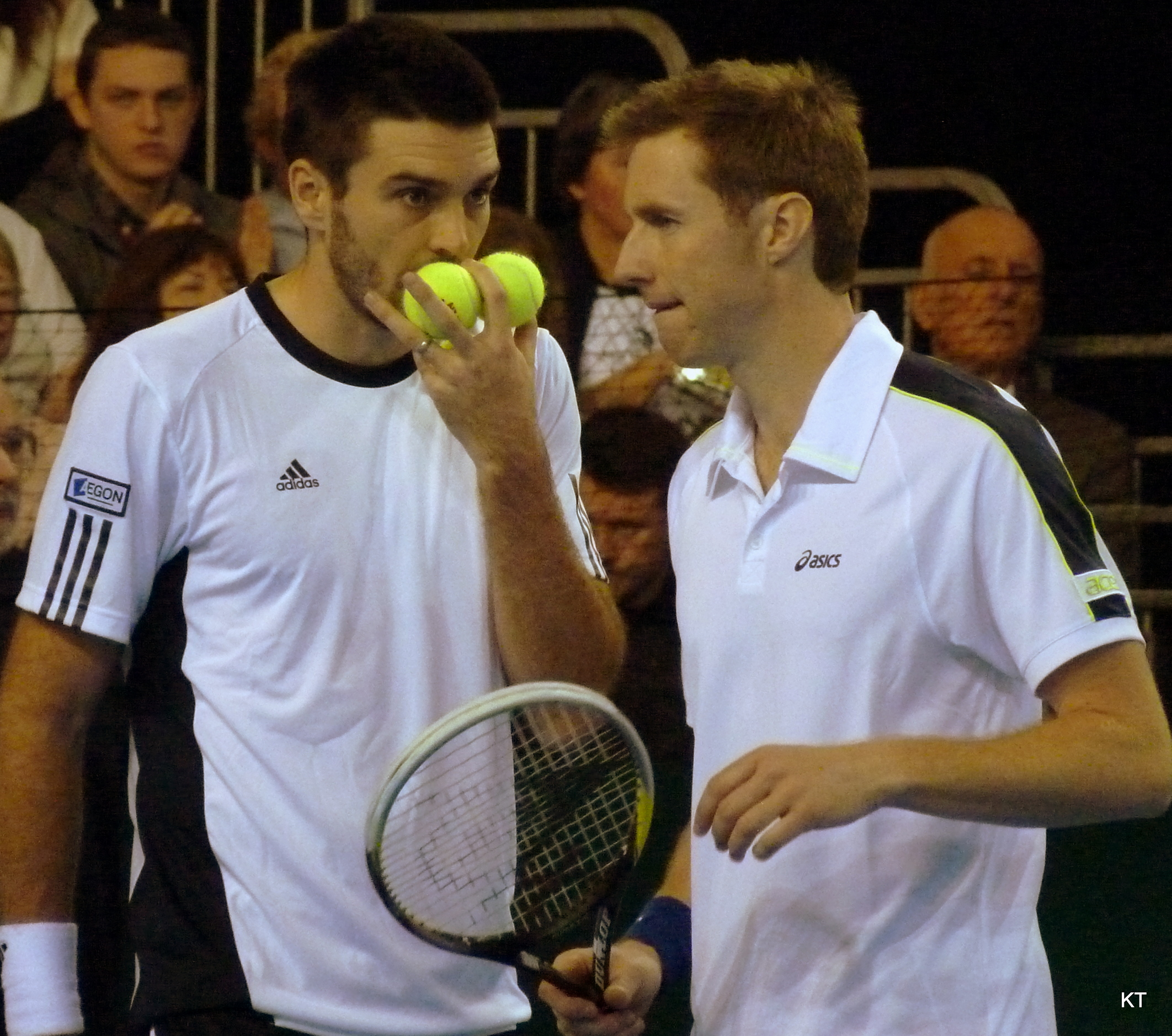 Against Russia in a 2013 Euro Africa group tie.